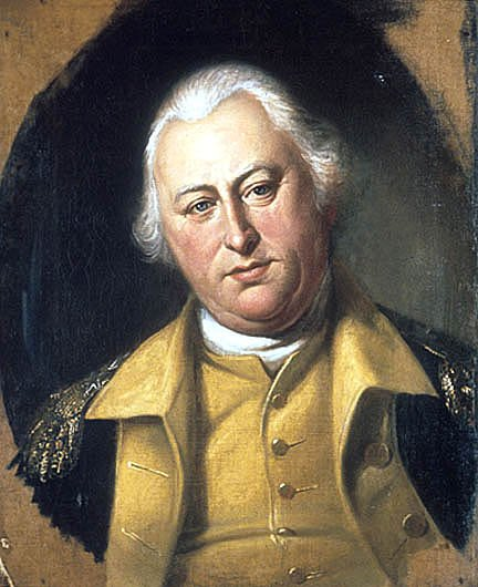 Portrait of Benjamin Lincoln by Charles Willson Peale. Probably painted during Lincoln's term as Secretary of War before October 13, 1784. Listed in the 1795 Peale Museum catalog. Purchased by the City of Philadelphia at the 1854 Peale Museum sale.